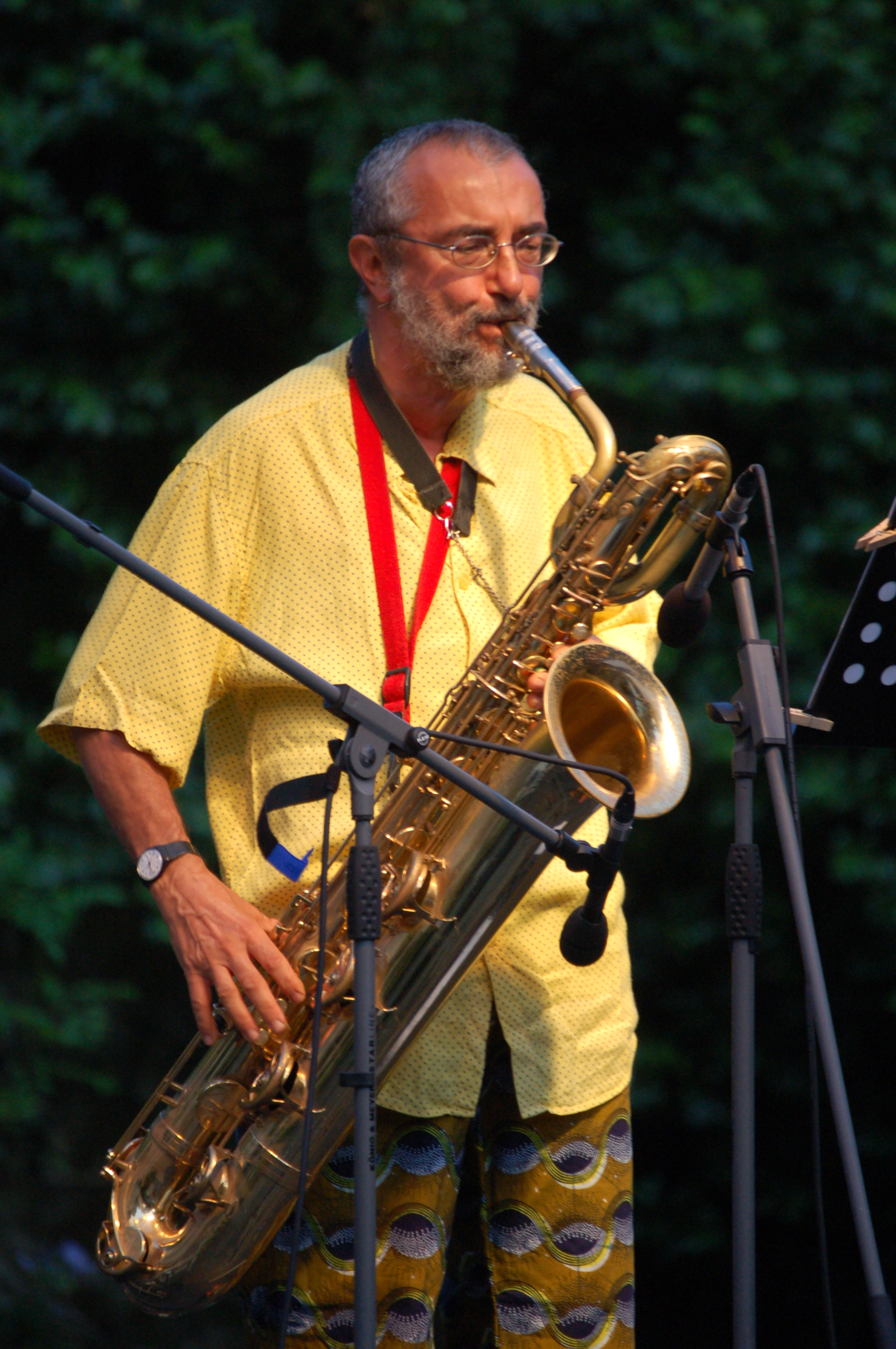 Saxophonist Carlo Actis Dato in concert.